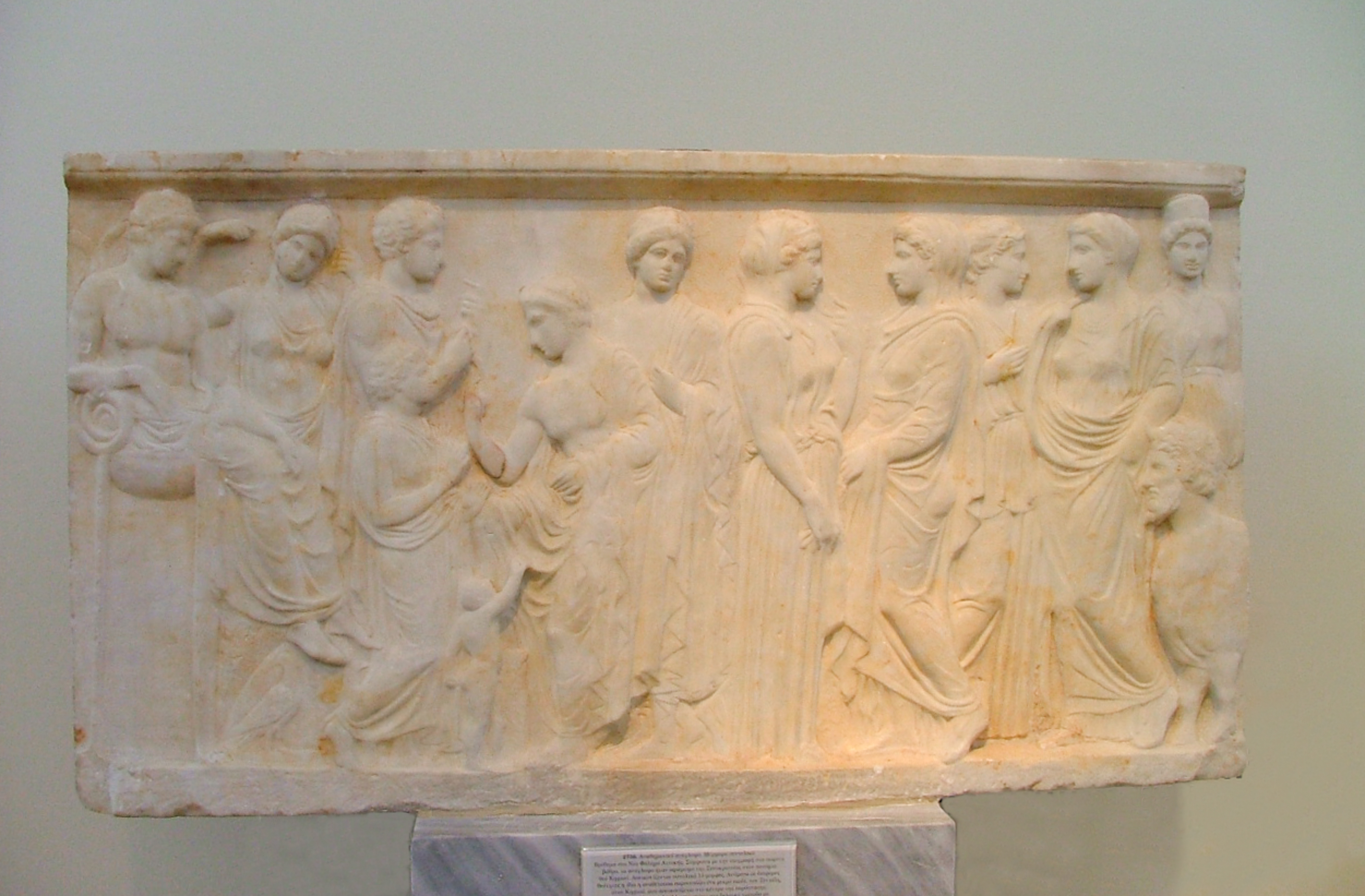 Votive relief found in New Phaleron, Attica. According to the inscription on the poros base, the relief was dedicated by Xenokrateia to the river-god Cephissus. It depicts thirteen figures in all. Among several divinities, the dedicant present a child, Xeniades, to Cephissus, who is show in the center of the relief. At left, Apollo sits on the Delphic tripod , with his feet resting on the omphalos. An eagle stands nearby. At far right, Acheloos is shown as a humanized bull. Pentelic Marble. Ca. 410 BC. National Archaeological Museum of Athens, inv. No 2756.